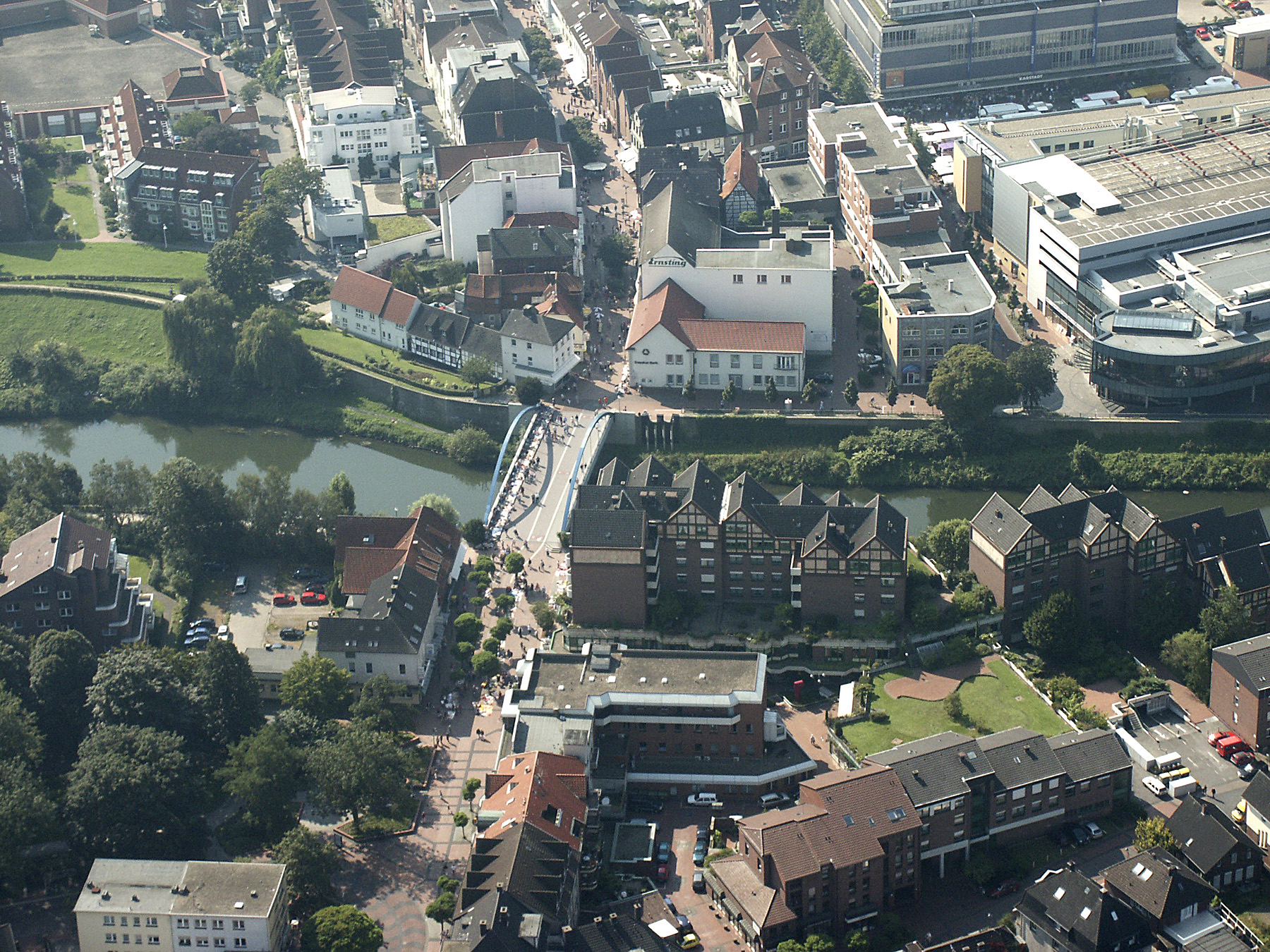 Bridge over the river Lippe in Lünen, aerial view